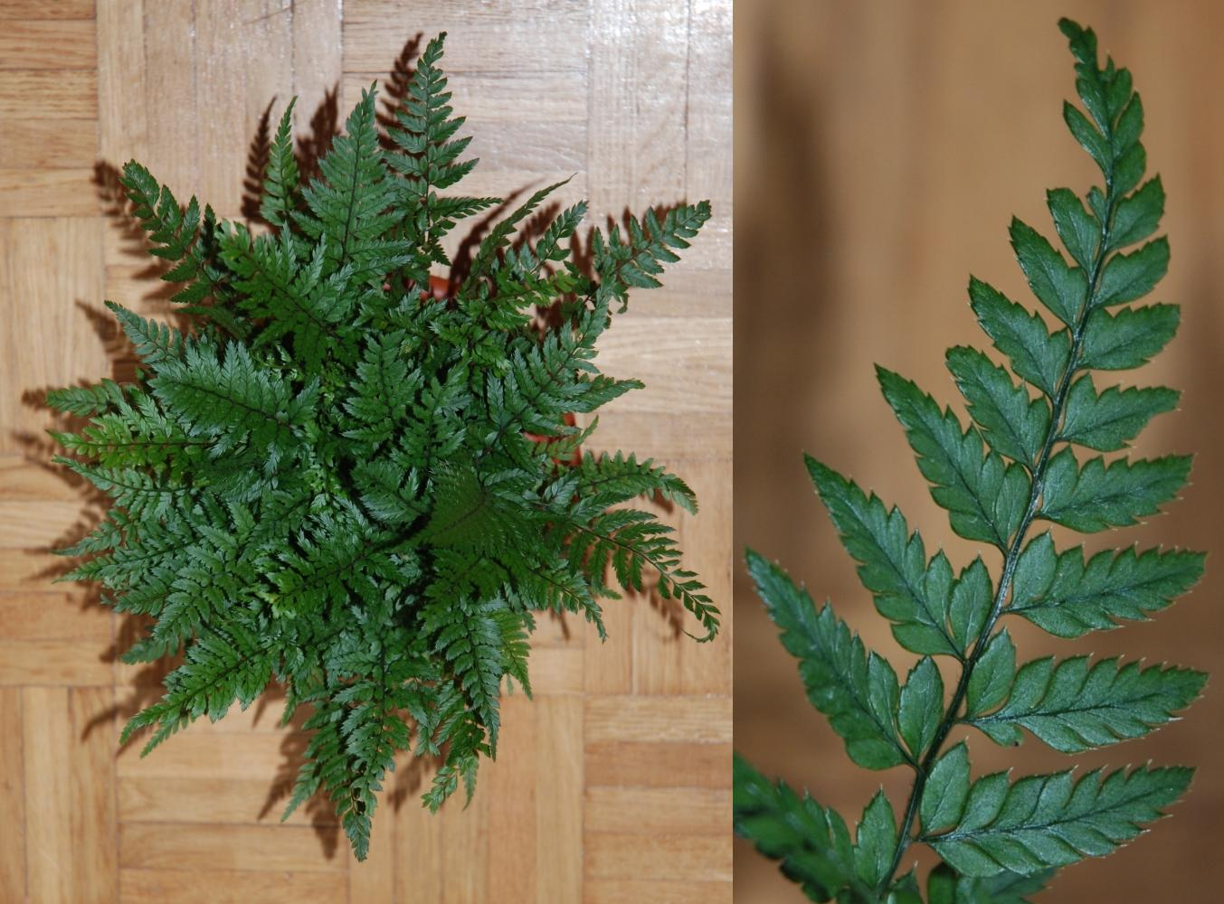 Picture of fern: Davallia mariesii.